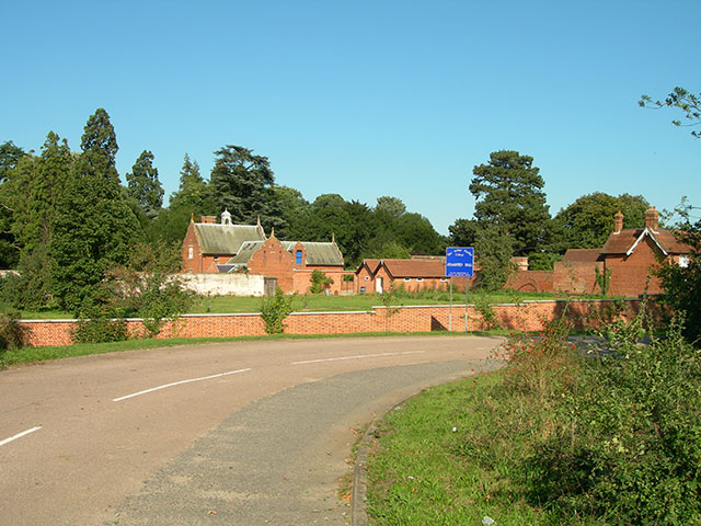 Stansted Hall. The hall is situated 300m from the M11 and is accessed from Church Road, Stansted Mountfitchet.